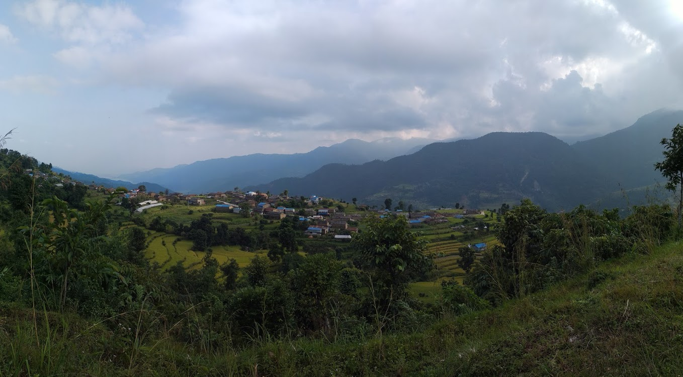 Village as seen from the Krishi Sadak